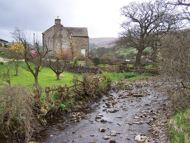 Bishopdale Beck by Ribba Hall Upper reaches of the dale.